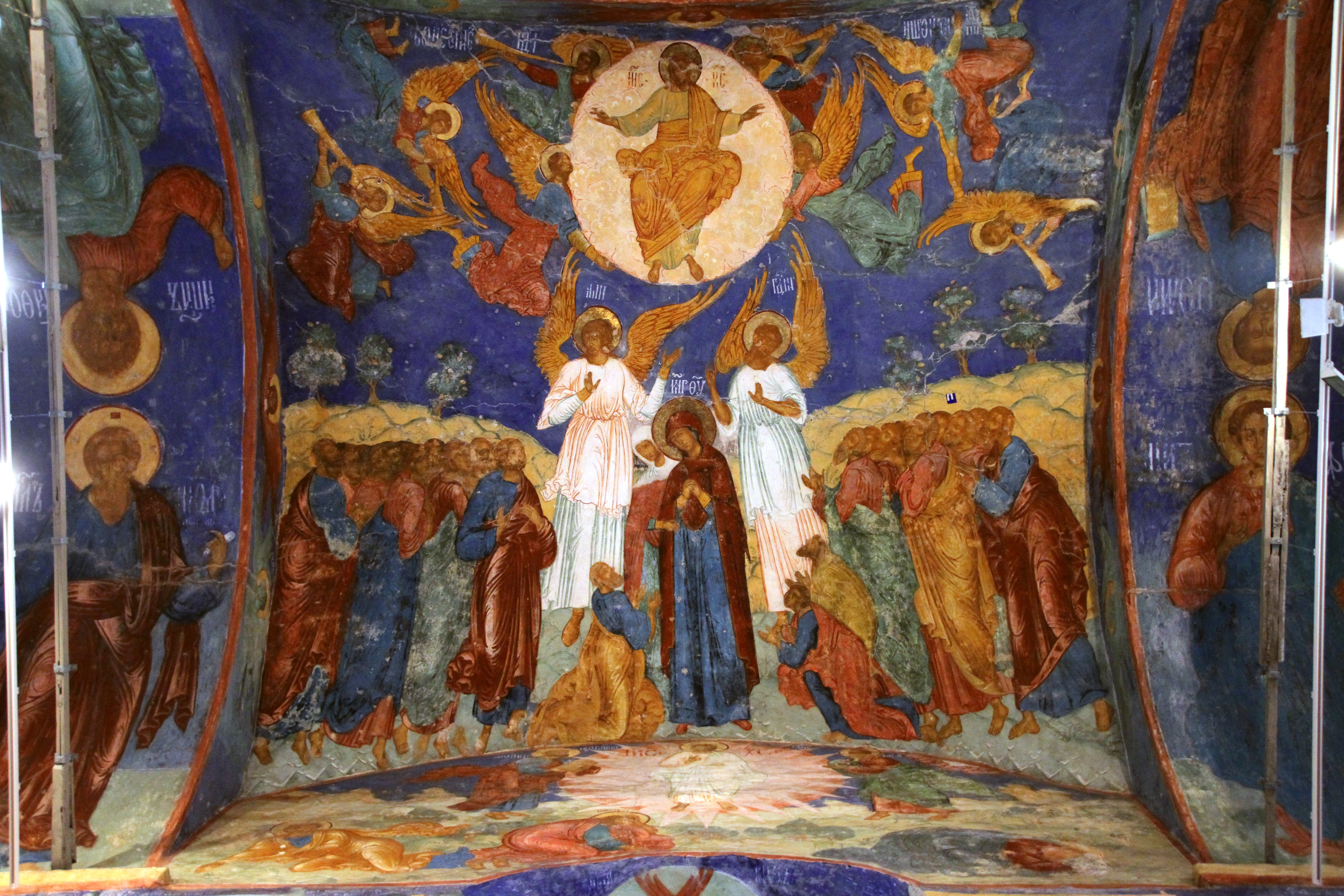 Church of the Transfiguration at Spaso-Yevfimiyev Monastery; fresco of the Transfiguration of Mary.